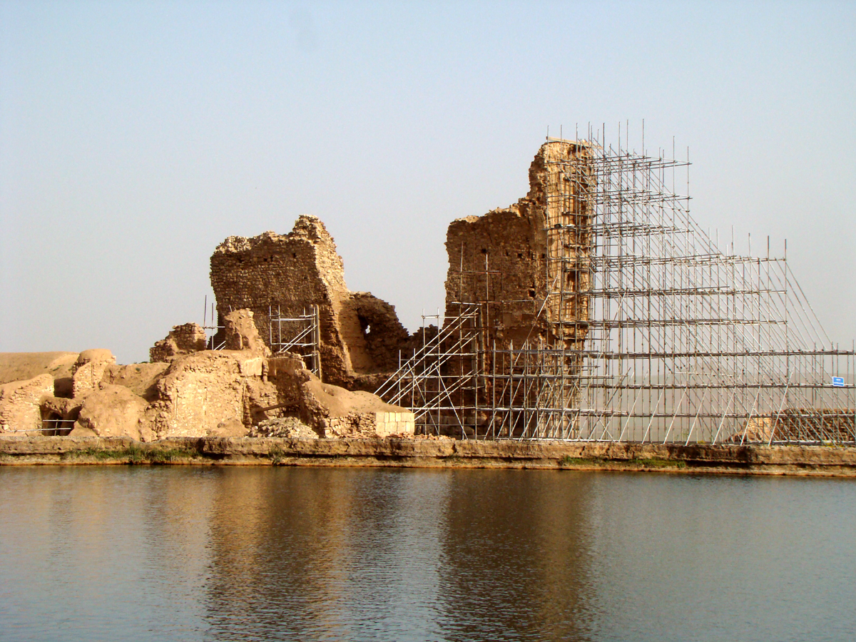 Takhte Soleyman in Tekab.